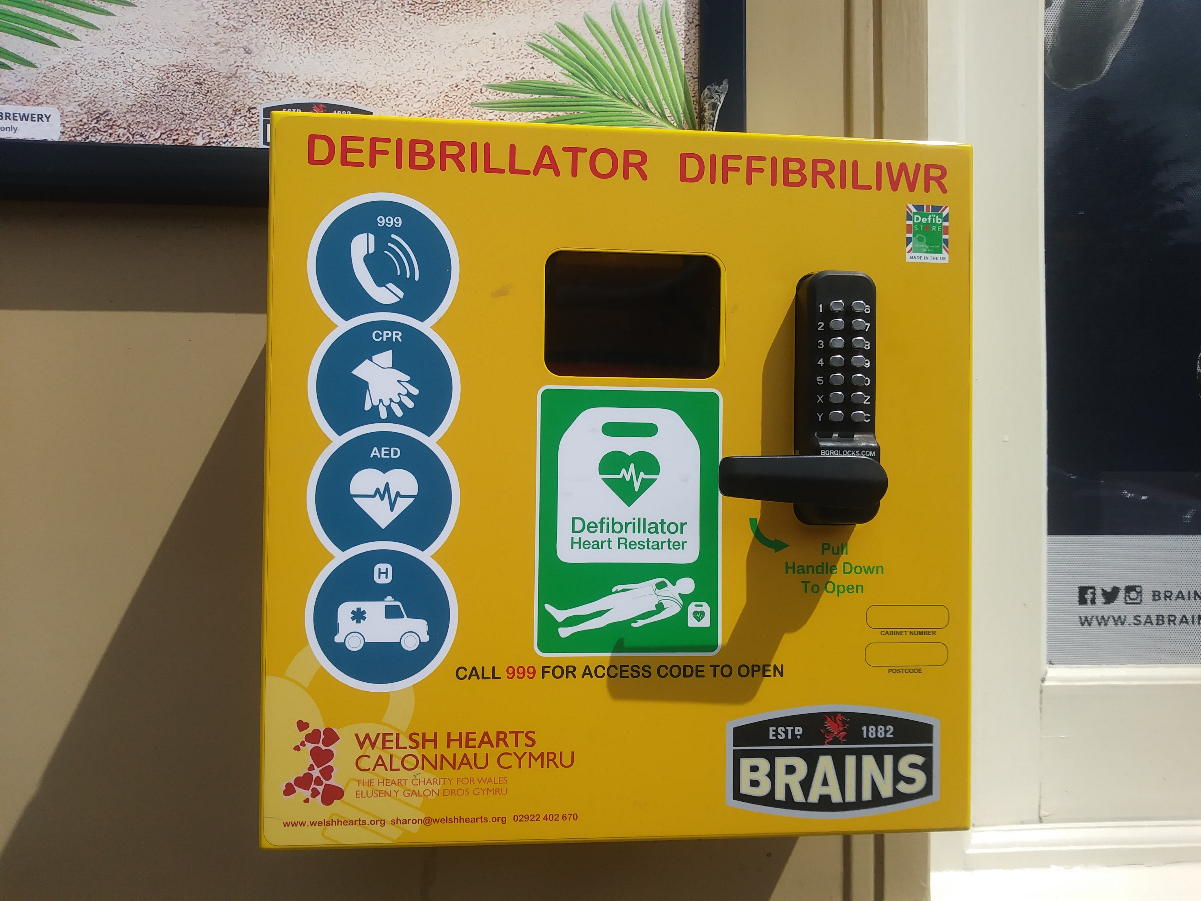 Public deflibrulator machine, Wales, bilingual Welsh English signage